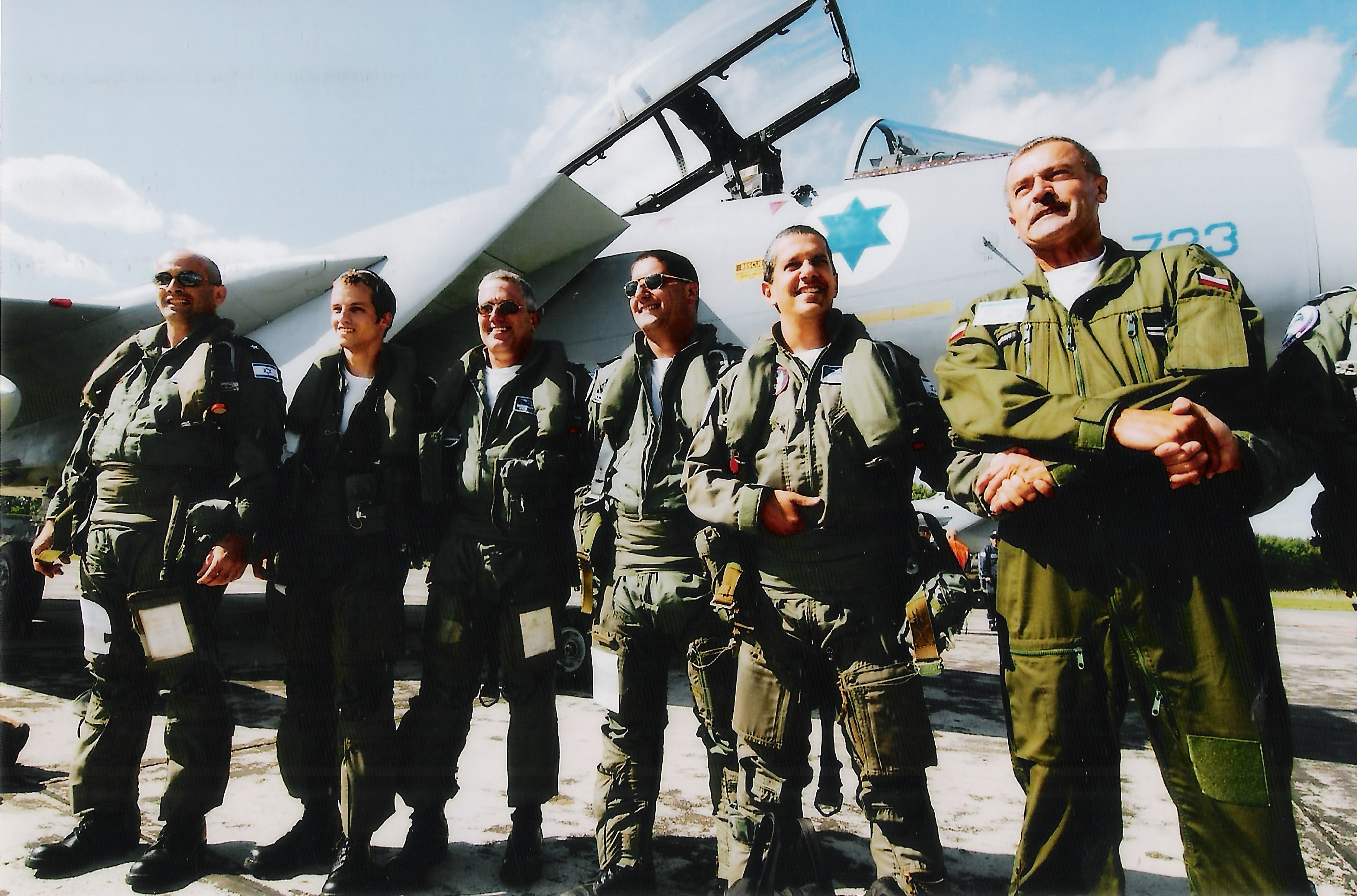 IAF planes flew in the skies over the Auschwitz extermination camp